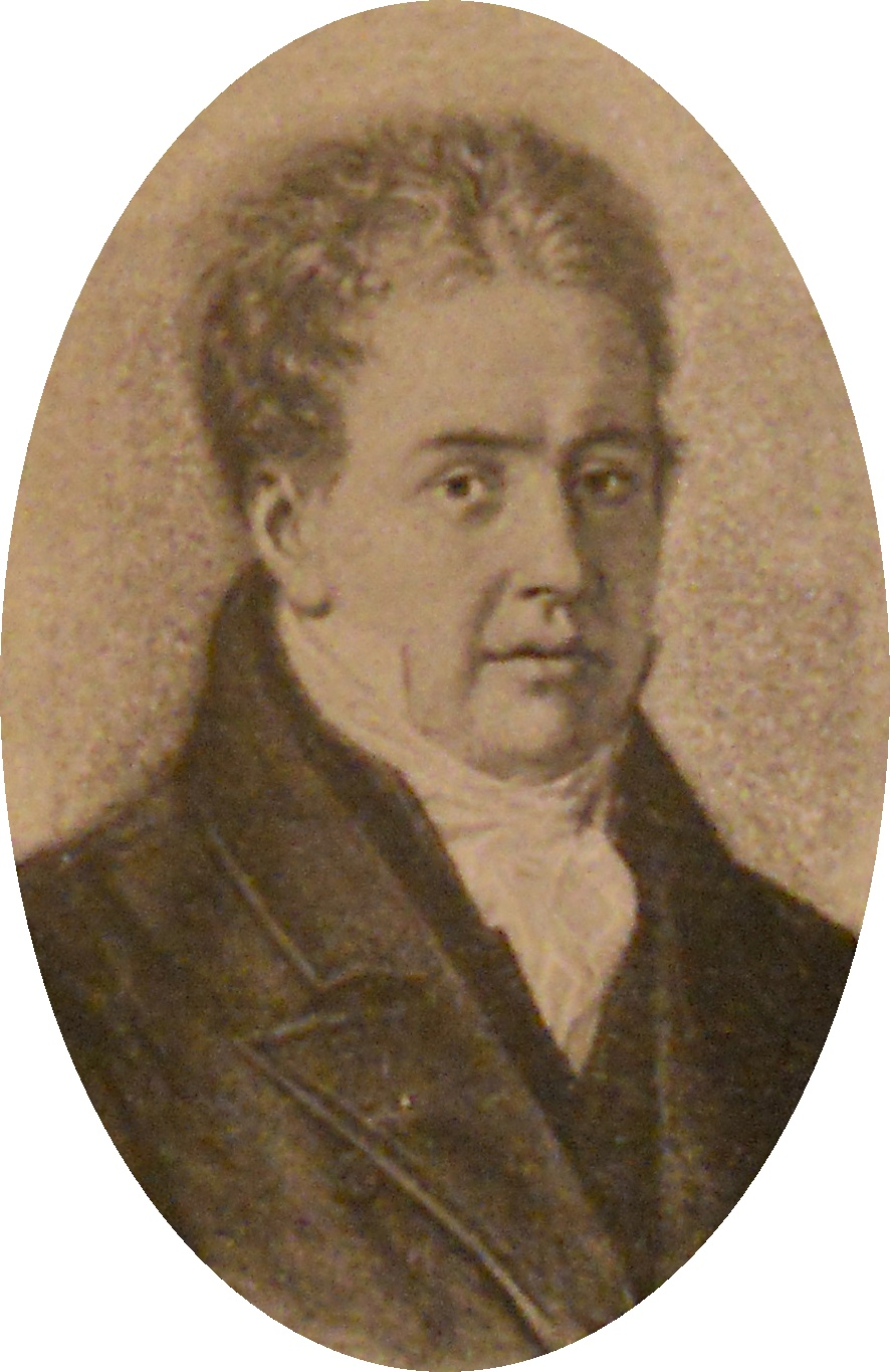 19th-century portrait of Giovanni Vicini, politician (1771-1845) from Italy